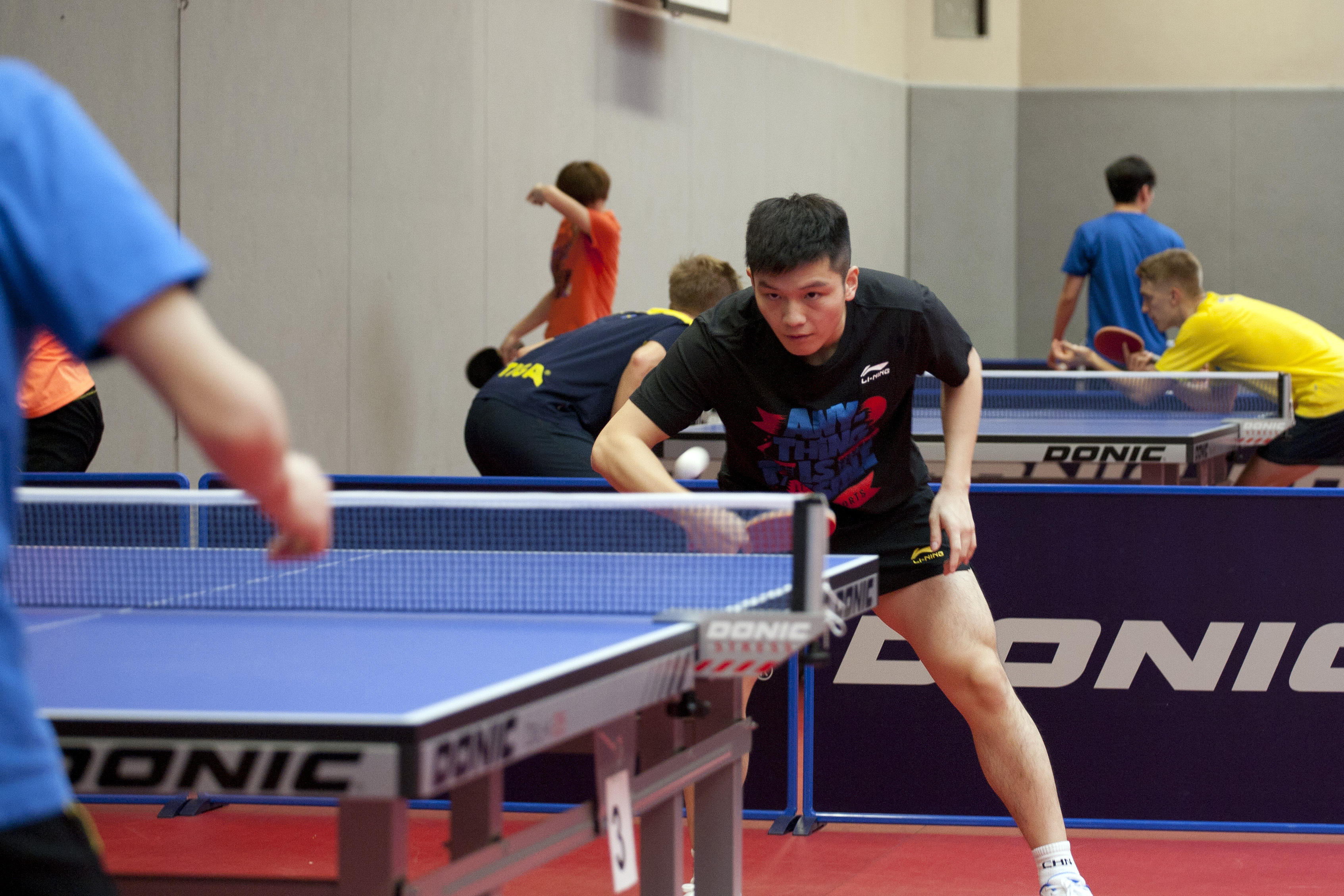 ITTF World Tour 2017 German Open, Magdeburg, Germany, 7 Nov 2017 - 12 Nov 2017, Fan Zhendong